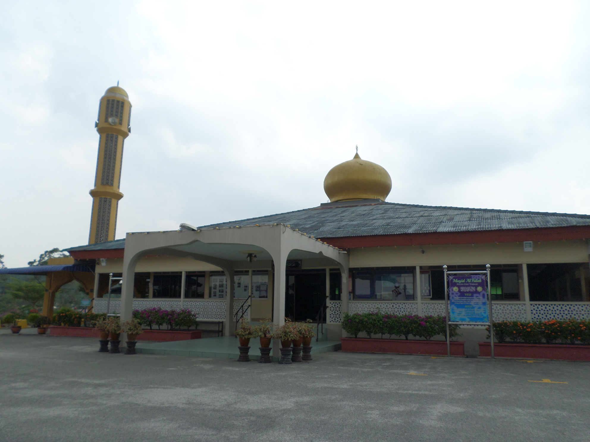 FELDA Ulu Tebrau Mosque, FELDA Ulu Tebrau, Ulu Tiram, Johor Bahru, Johor, Malaysia